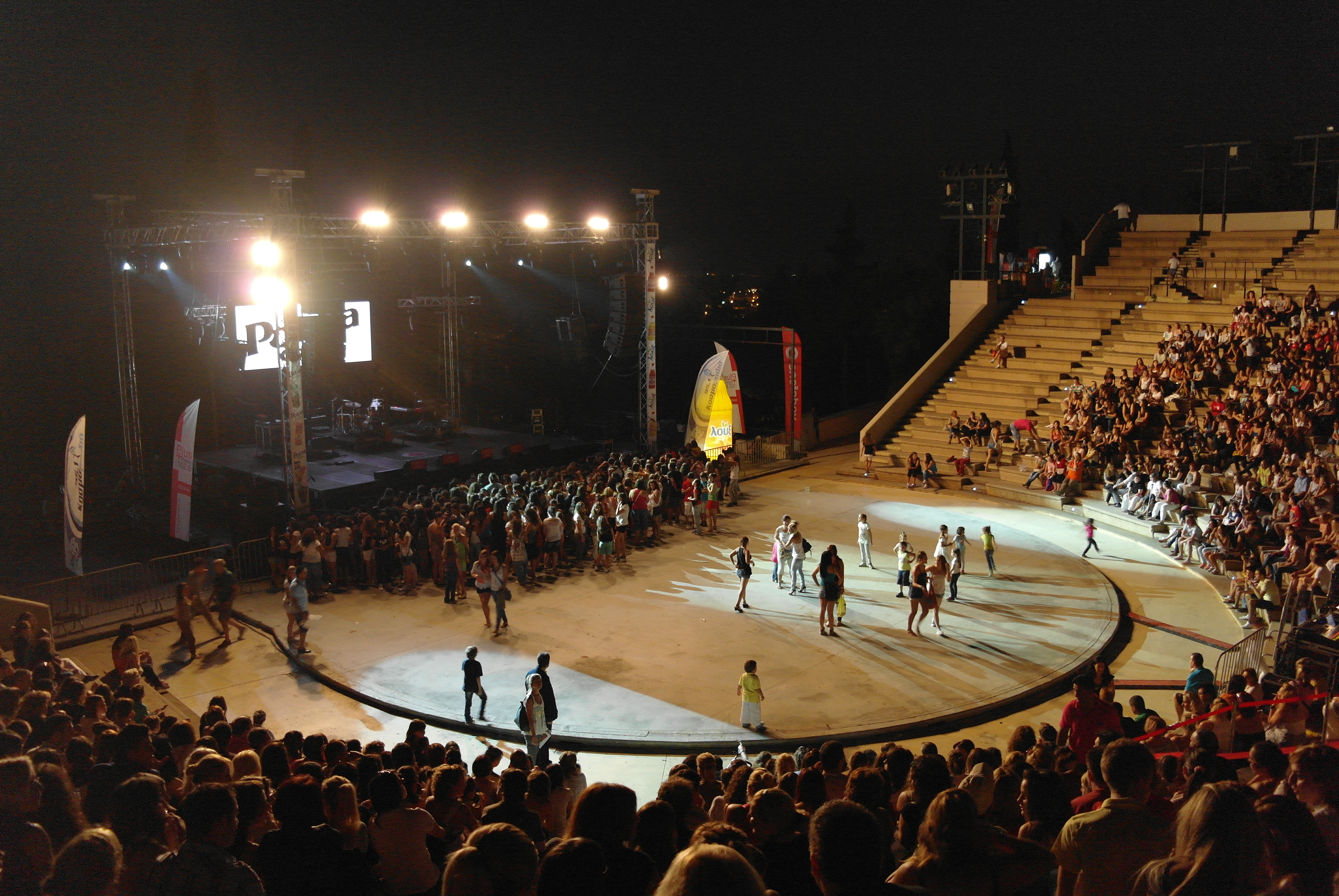 Theatro Dasous